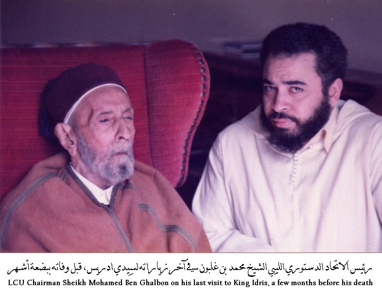 King Idris of Libya and LCU Chairman Sheikh Mohamed Ben Ghalbo